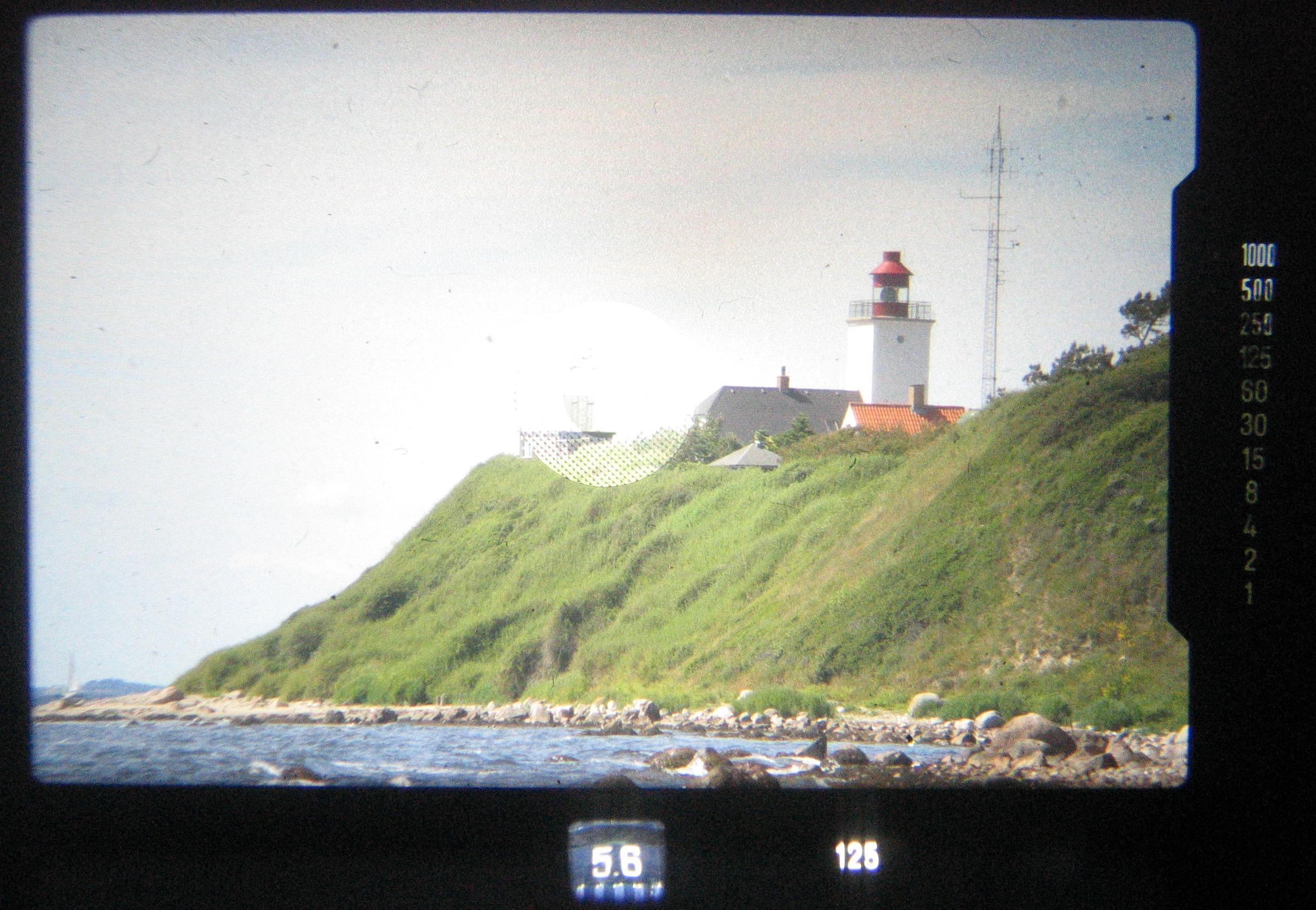 Viewfinder of SLR Camera with 300 mm tele lens. (Røsnæs Fyr, Denmark)